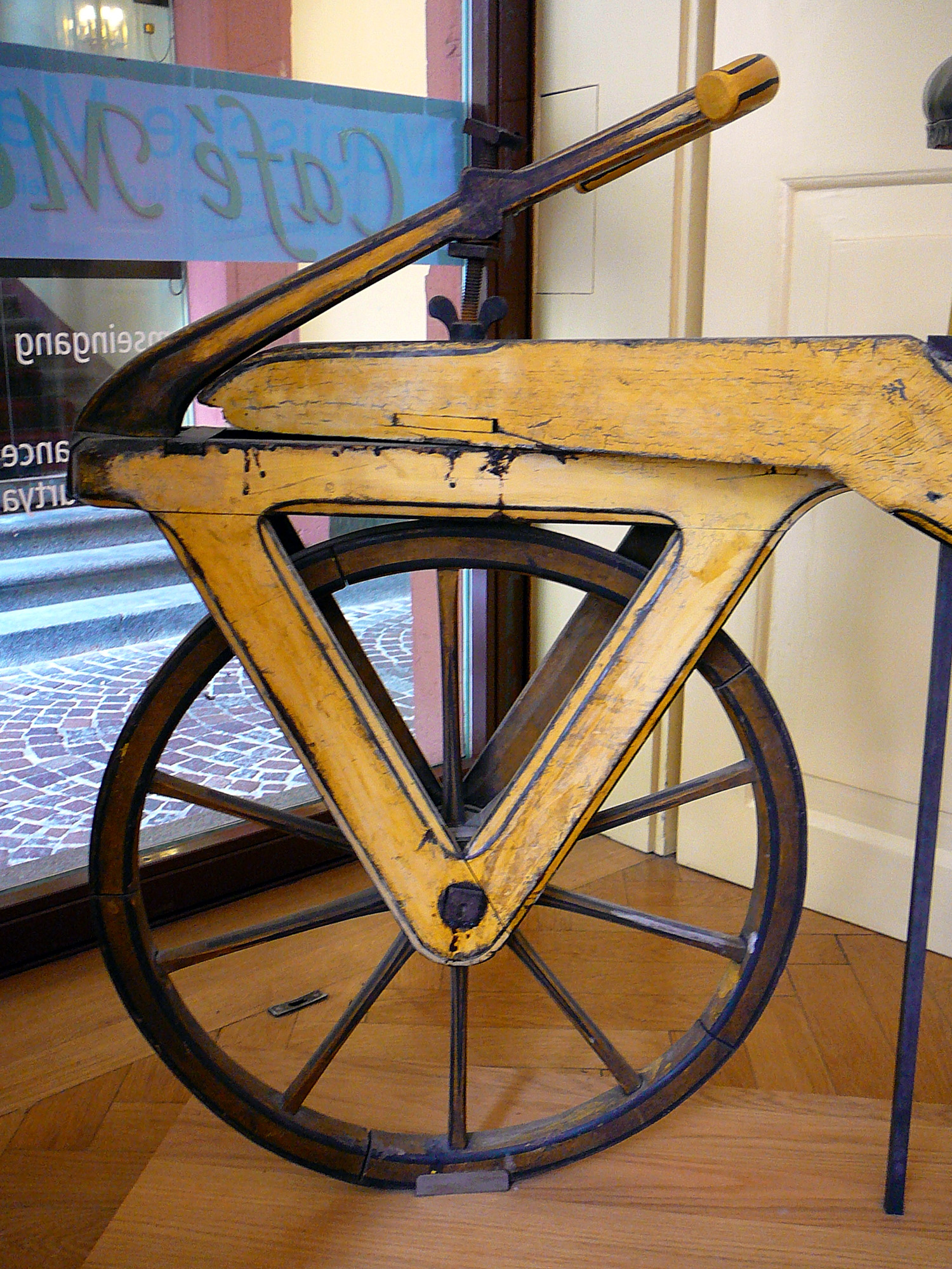 Steerable front wheel of a Draisine, also called Laufmaschine ("running machine"), from around 1820. The Laufmaschine was invented by the German Baron Karl von Drais in Mannheim in 1817. Being the first means of transport to make use of the two-wheeler principle, the Laufmaschine is regarded as the archetype of the bicycle. The above Draisine was built with cherry tree wood and softwood. It is displayed at the Kurpfälzisches Museum in Heidelberg, Germany (Inv.-No. GH 98).